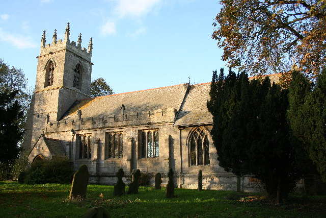 St.Martin's church, Bole. Perpendicular and Decorathed plus a splendid octagonal Norman font